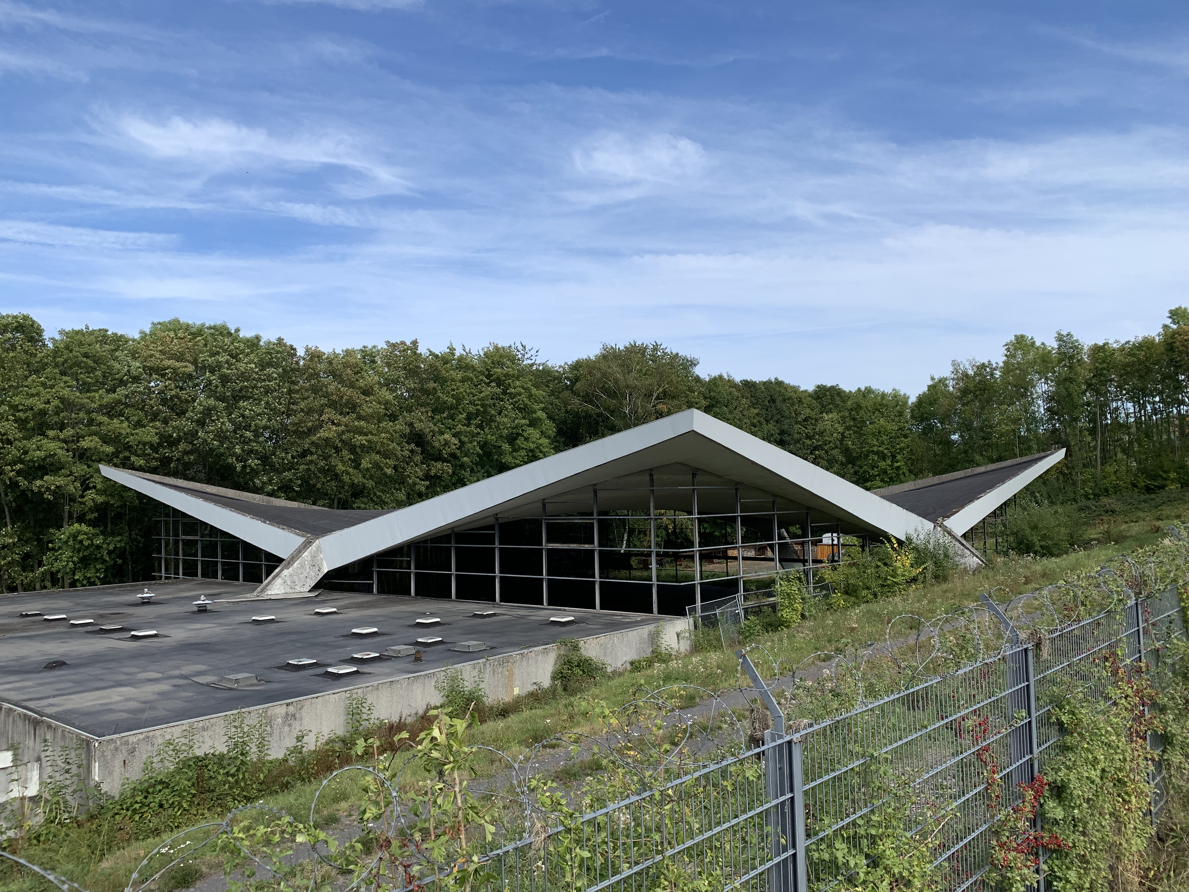 cultural monument Lore-Bauer-Halle in Idstein